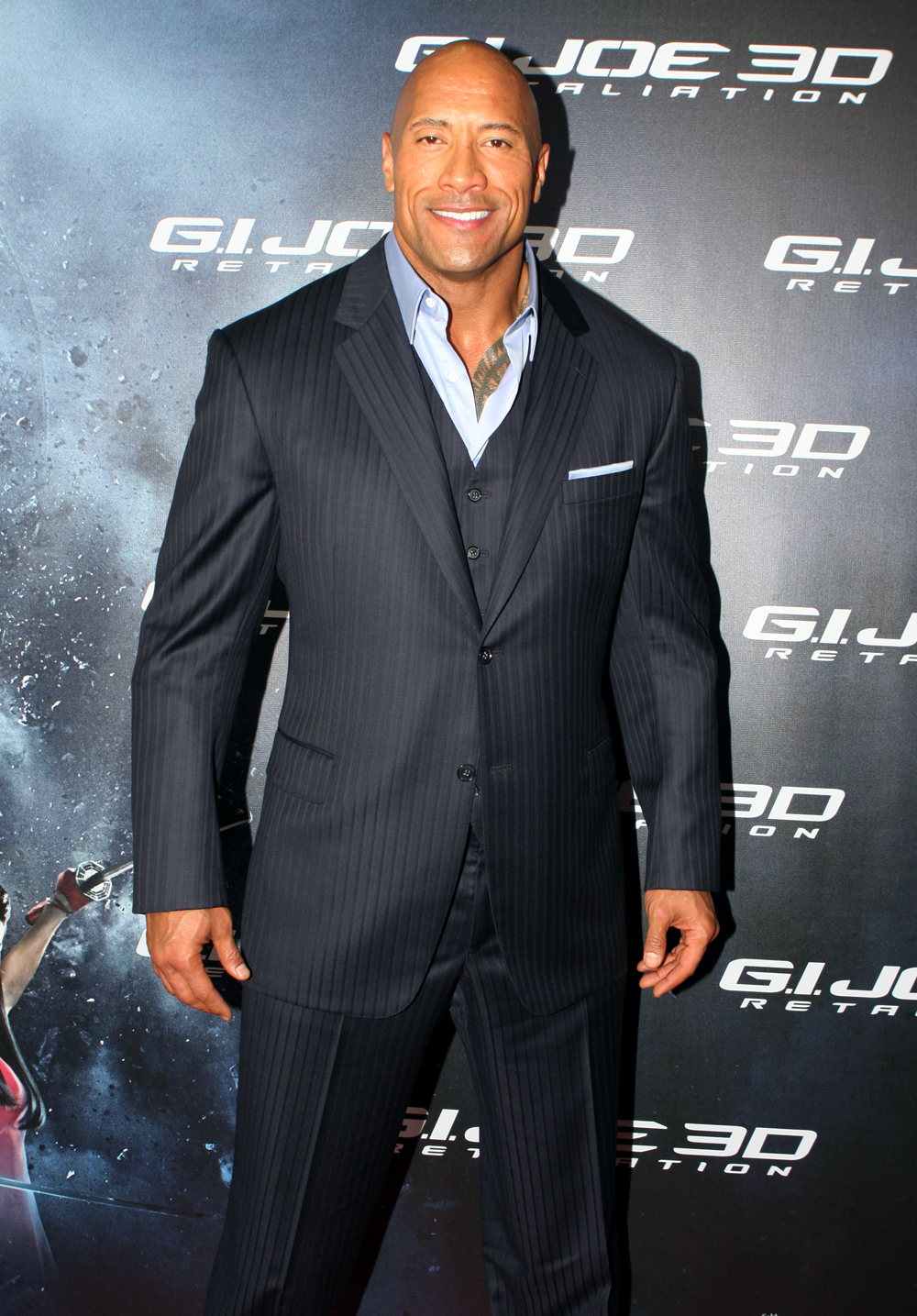 G.I. JOE: RETALIATION - Red carpet movie premiere tonight, Event Cinemas, Sydney, Australia - 14th March 2013.